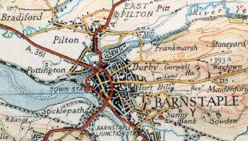 Reproduced from the 1937 OS map